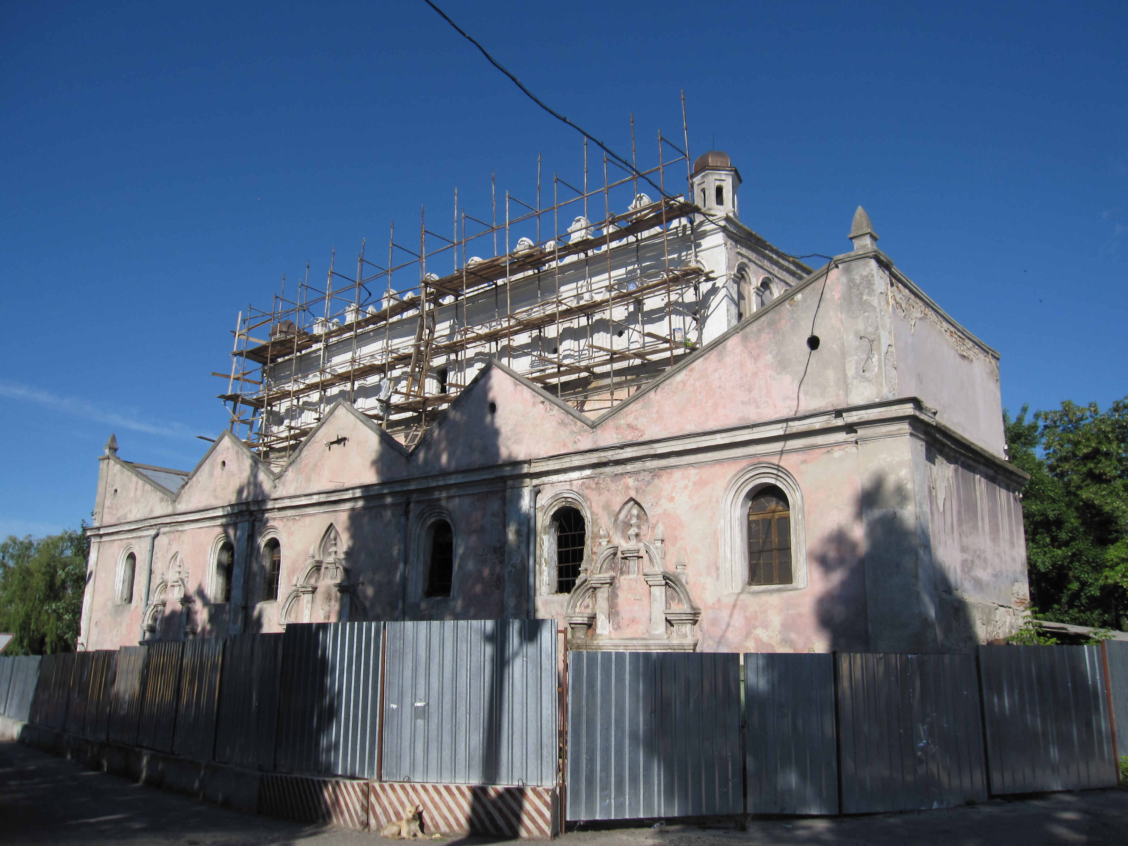 Synagogue of Zhovkva